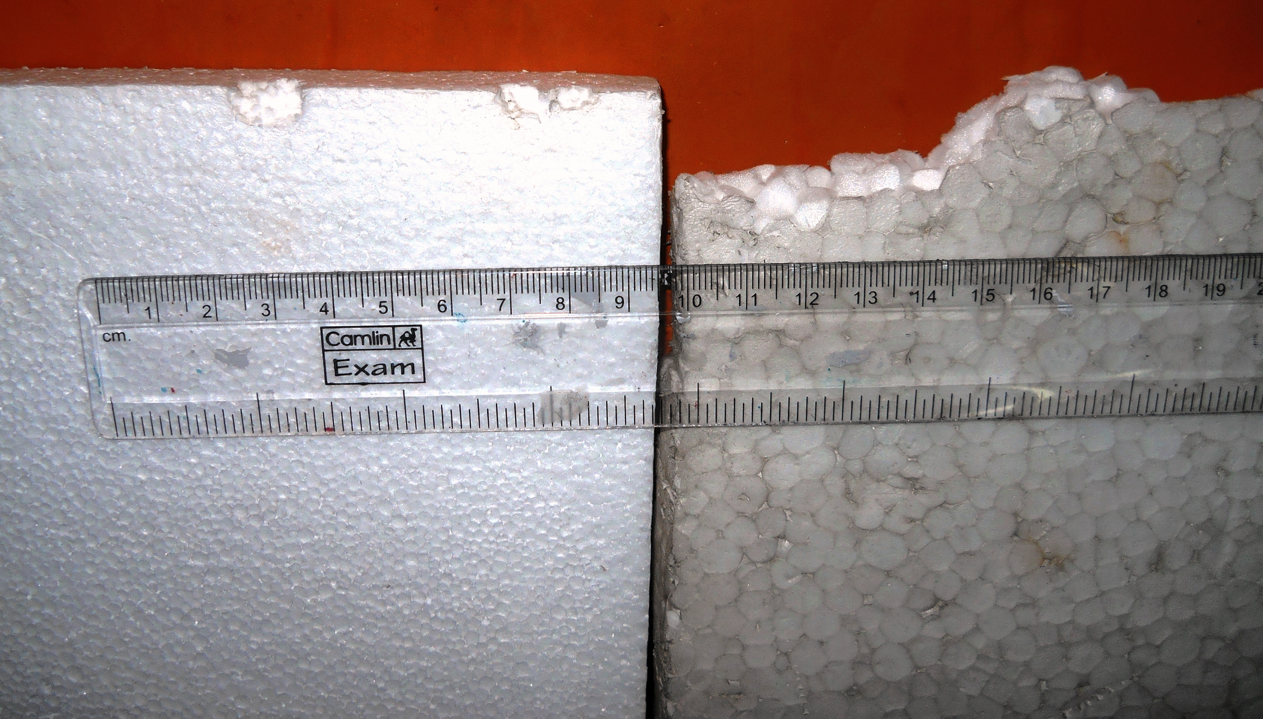 Thermocol blocks made up by fusing thermocol balls. Watch the broken ends. Left-one is from a packing-box. Right-one is used for crafts, models etc.